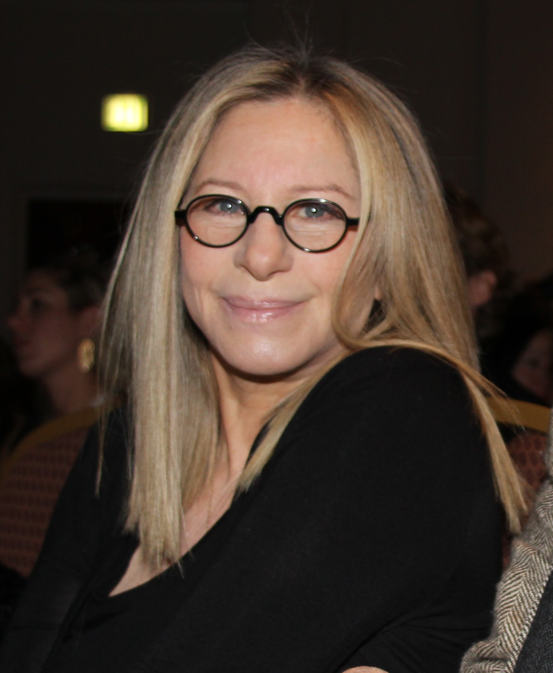 Barbra Streisand at the Clinton "Health Matters" Conference in La Quinta, California